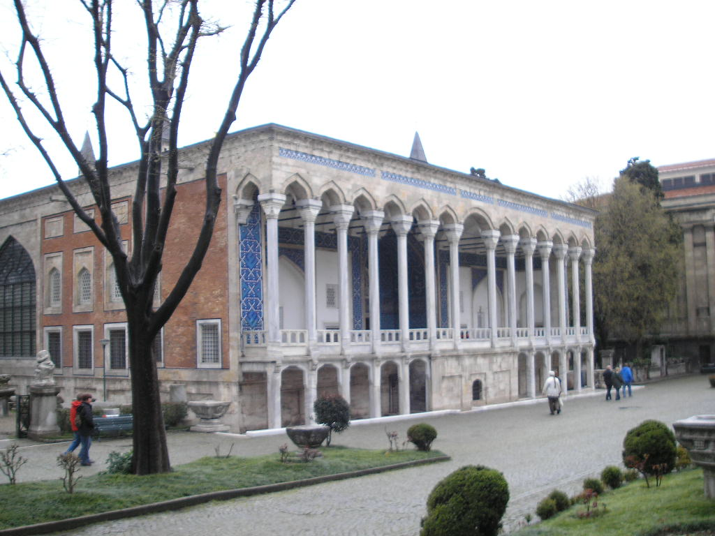 Tiled Pavilion, front facade with arcaded veranda, Topkapı Palace, Istanbul.